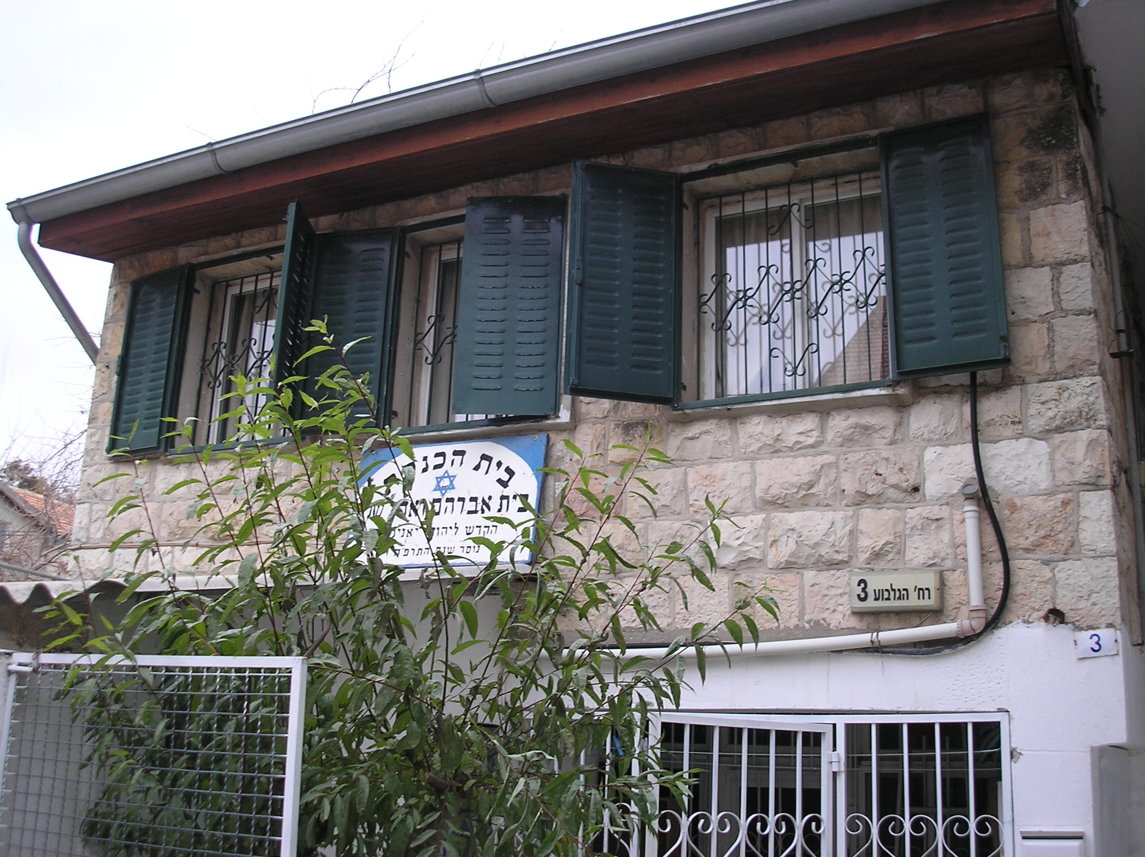 Jerusalem, In Ohel Moshe in Nahlaot, 3 HaGilboa street